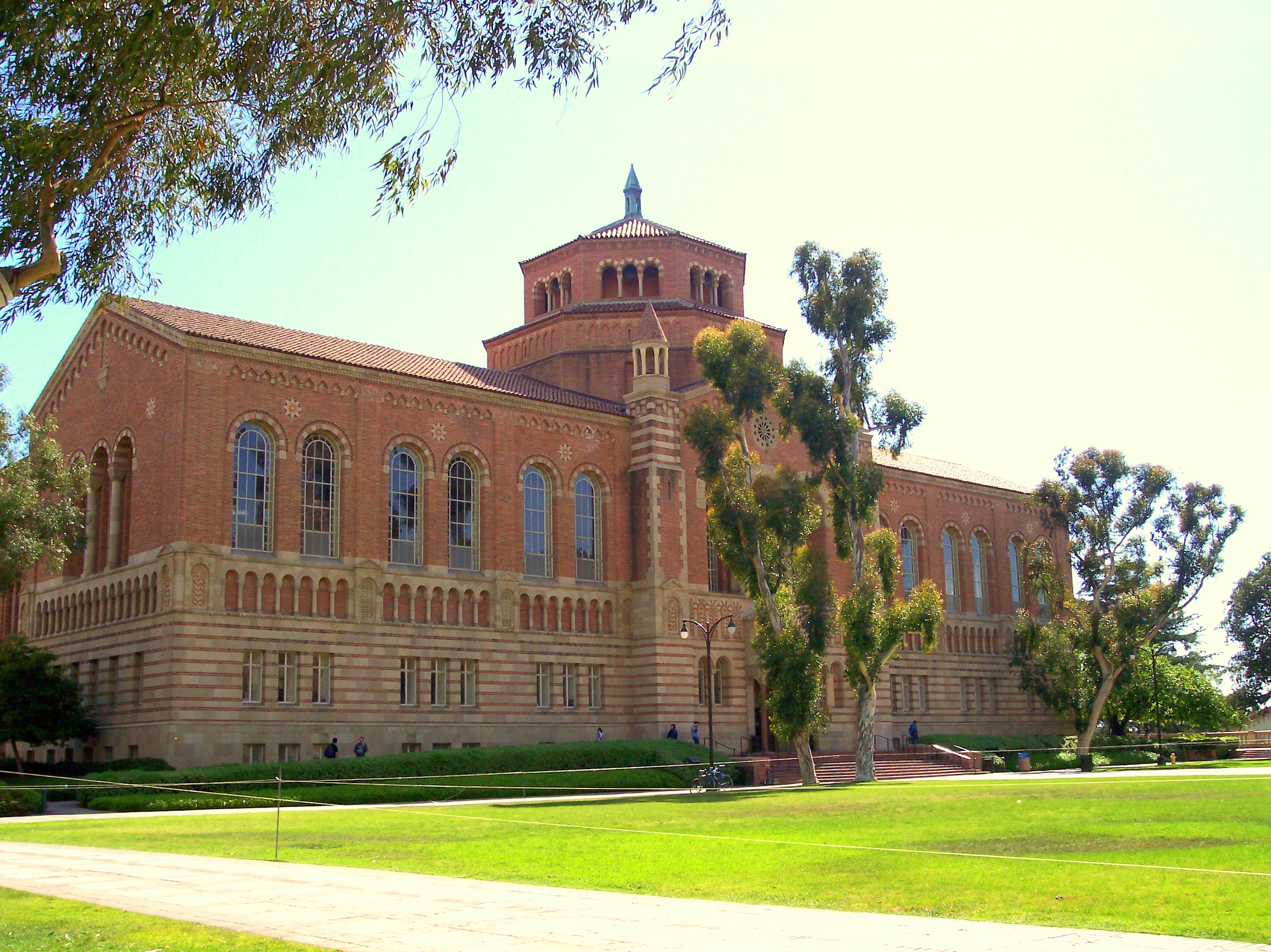 Powell Library, angle view, UCLA campus